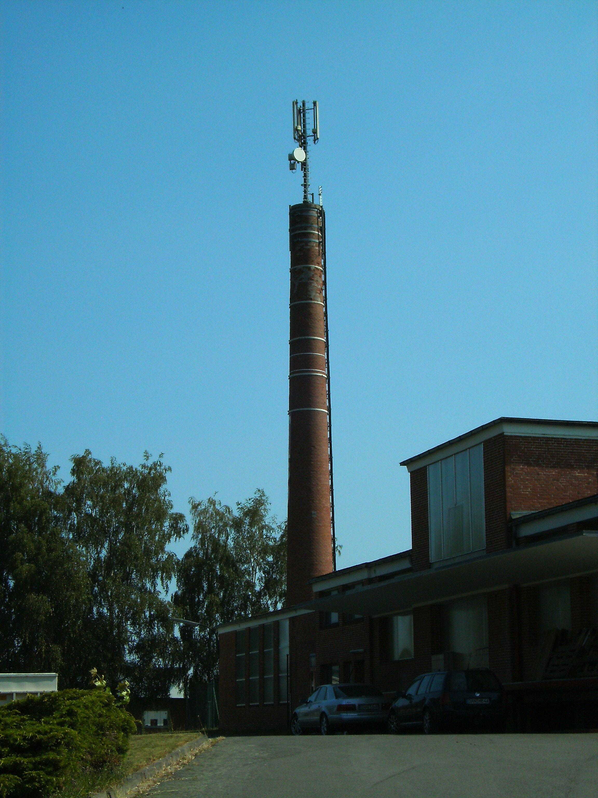 Chimney transformed into a mobile phone tower in Lüchow-Dannenberg at 53°6'3.6"N, 11°7'6.14"E